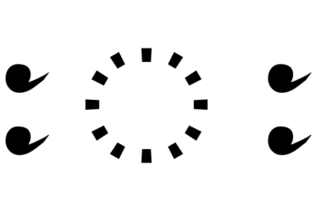 Used for enclose the digits